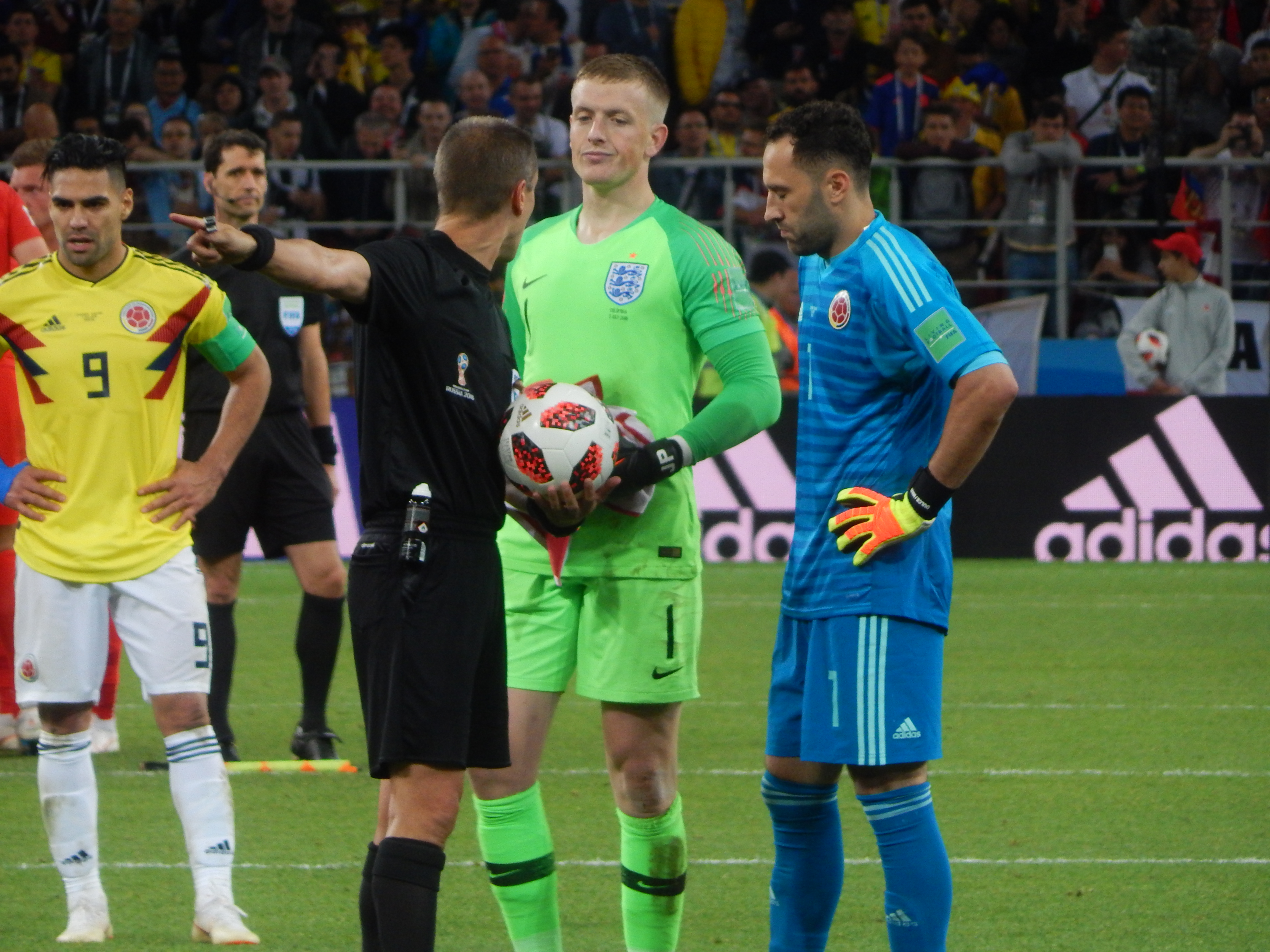 FIFA World Cup 2018, Round of 16, Colombia vs. England